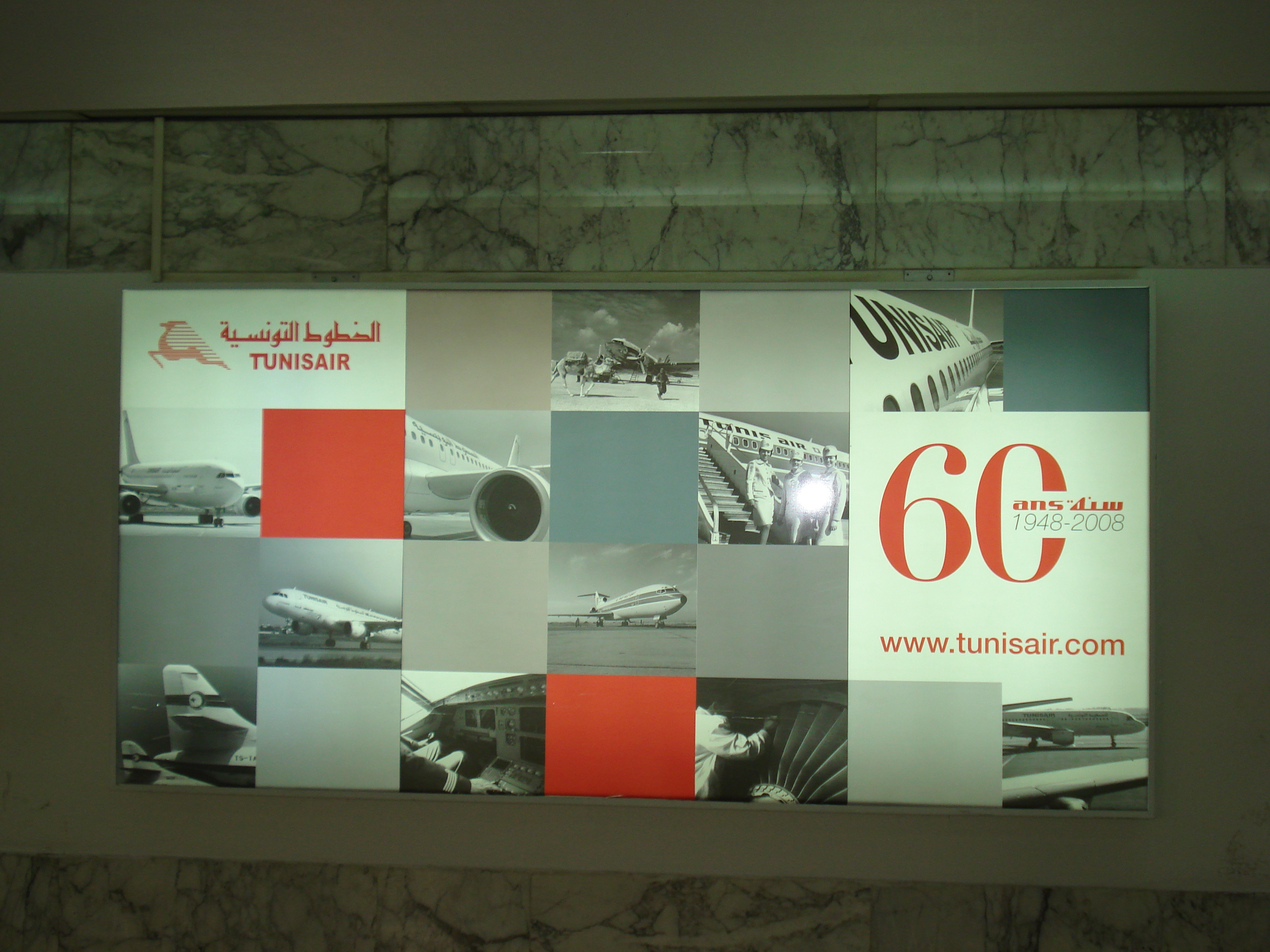 Tunisair advert at Tunis-Carthage Airport, Tunis, Tunisia